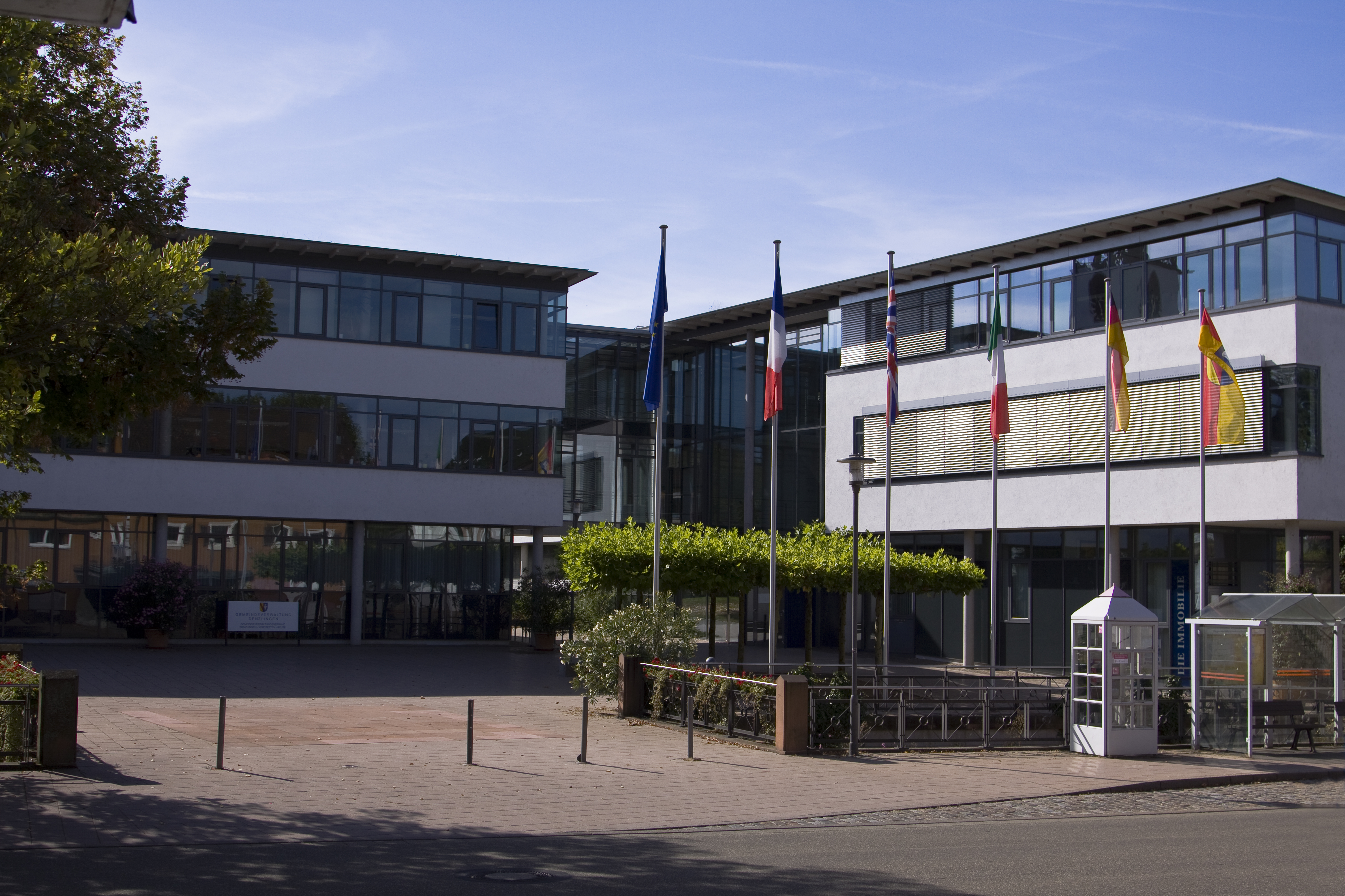 The Town hall in Denzlingen, near Freiburg (Germany). It was built in 1997.